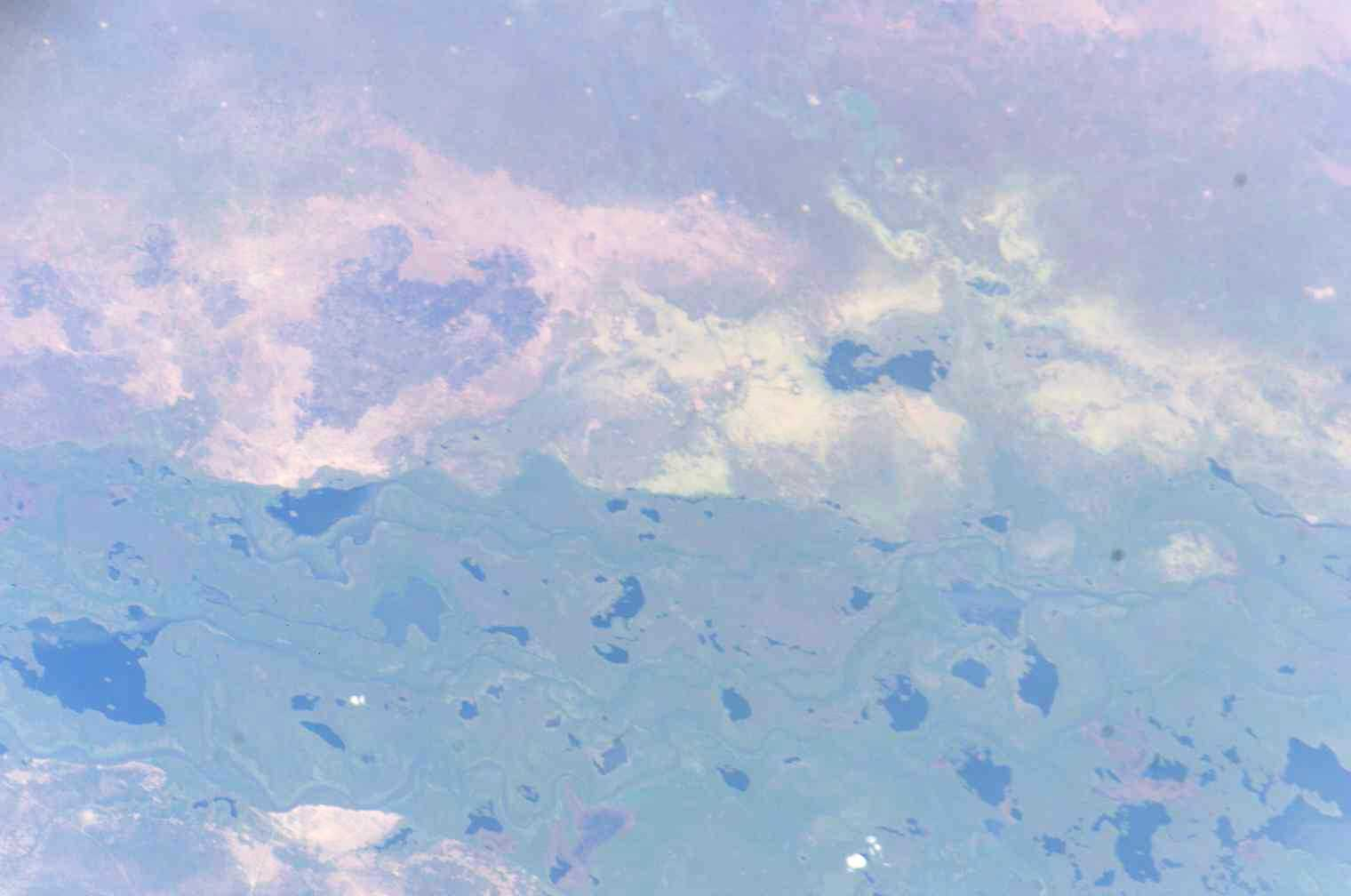 The White Nile and the city of Bor located off the east bank of the river — South Sudan. The photography is taken from East loking westward, Bor appears as a light triangle at the very bottom of the photography. In Jonglei state, in the Greater Upper Nile region of northeastern South Sudan.